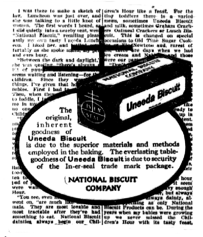 Uneeda biscuit newspaper ad, showing the Nabisco "antenna" trademark.